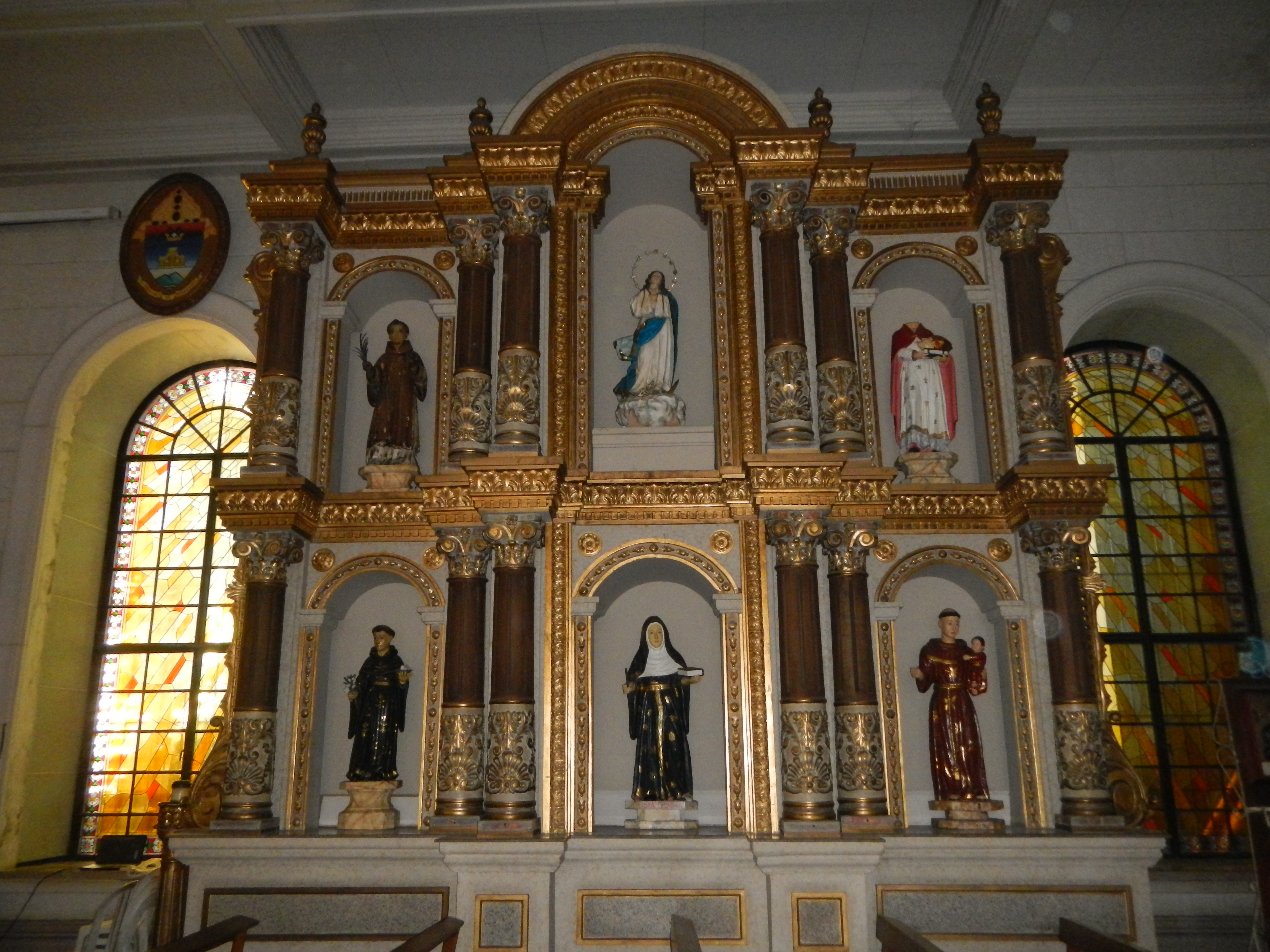 Parañaque Cathedral[1]St. Andrew's Cathedral, officially known as The Cathedral Parish of St. Andrew, is considered one of the oldest churches in the Philippines. It was established in 1580 by Spanish Augustinian friars.The church is the seat of the Roman Catholic Diocese of Parañaque[2], the local church that comprises Parañaque City, Muntinlupa City, and Las Piñas City. ([3]Roman Catholic Archdiocese of Manila). Parañaque[4] The City of Parañaque Andrew the Apostle[5] (Greek: Ἀνδρέας, Andreas; from the early 1st century – mid to late 1st century AD; known by some as Saint Andrew), called in the Orthodox tradition Prōtoklētos, or the First-called, is a Christian Apostle and the brother of Saint Peter. Our Lady of Good Success[6] also called as Our Lady of Good Success (Spanish: Nuestra Señora del Buen Suceso; Filipino: Ina ng Mabubuting Pangyayari) is one of the titles of Blessed Virgin Mary. This title is shared among numerous images around the world — a number of images in Spain, one in Quito, Ecuador, and one in Parañaque City, Philippines. It is claimed that Quito's image had produced an apparition - to Mother Mariana de Jésus Torres.[7] Diocesan Shrine & Patroness of Parañaque City Last August 10, 2012, celebrating her 387th enthronement anniversary and feast day, a decree from His Holiness Pope Benedict XVI, with approval of His Excellency, the Most Rev. Jesse E. Mercado, D.D., the Bishop of Diocese of Parañaque stating that the Cathedral Parish of St. Andrew will be the "Diocesan Shrine of Nuestra Señora del Buen Suceso", as delivered by Rev. Fr. Carmelo Estores, after the greeting of the Solemn High Mass. Last September 8, 2012, on her 12th canonical coronation anniversary, the Diocese of Parañaque declared Nuestra Señora del Buen Suceso as the official Patroness of the City of Parañaque. The Mass was attended by Parañaque City government officials and some lay people.